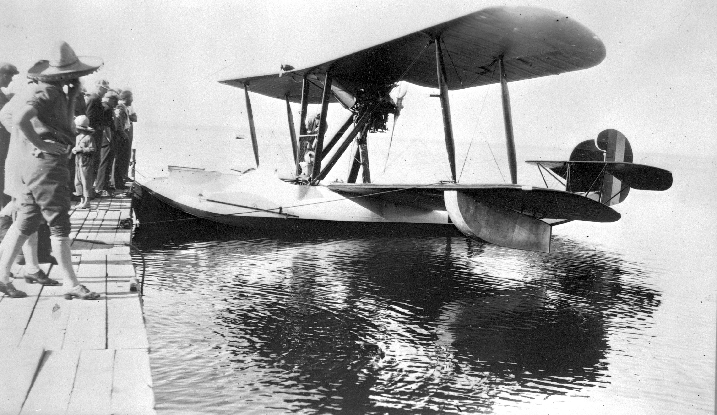 Note the person wearing a sombrero. Provincial Archives of Alberta, A15246.